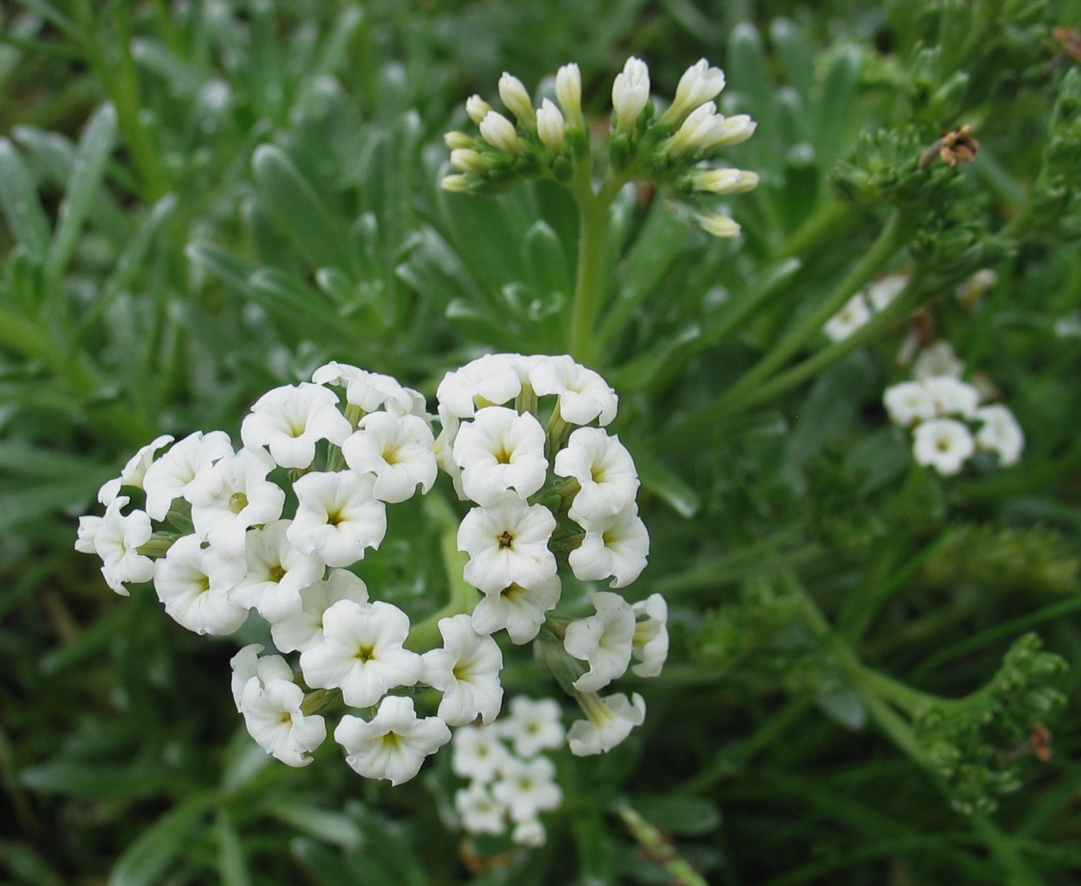 Hinahina or Hinahina kū kahakai Boraginaceae The variety is endemic to the Hawaiian Islands Oʻahu (Cultivated) When the leaves of koʻokolau (Bidens spp.) were not available, the leaves of hinahina kū hakai were brewed as a tea and believed to be a tonic by early Hawaiians. Dried leaves were used in treatment of diabetes. Too, the leaves along with alena (Boerhavia spp.) were pounded together, water added, and drunk for curing pāʻaoʻao (childhood disease, with physical weakening), ʻea (thrush), and naeʻoikū (severe asthma). The fragrant white flowers and the succulent leaves were used, providing a long-lived attractive lei by the ancient Hawaiians. NPH00001